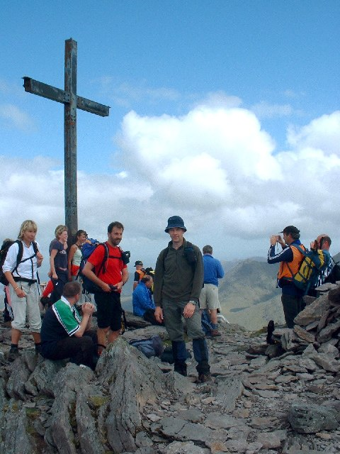 Crowds on Carrauntoohil Summit. Carrauntoohil summit with its metal Cross - and people posing in every direction!